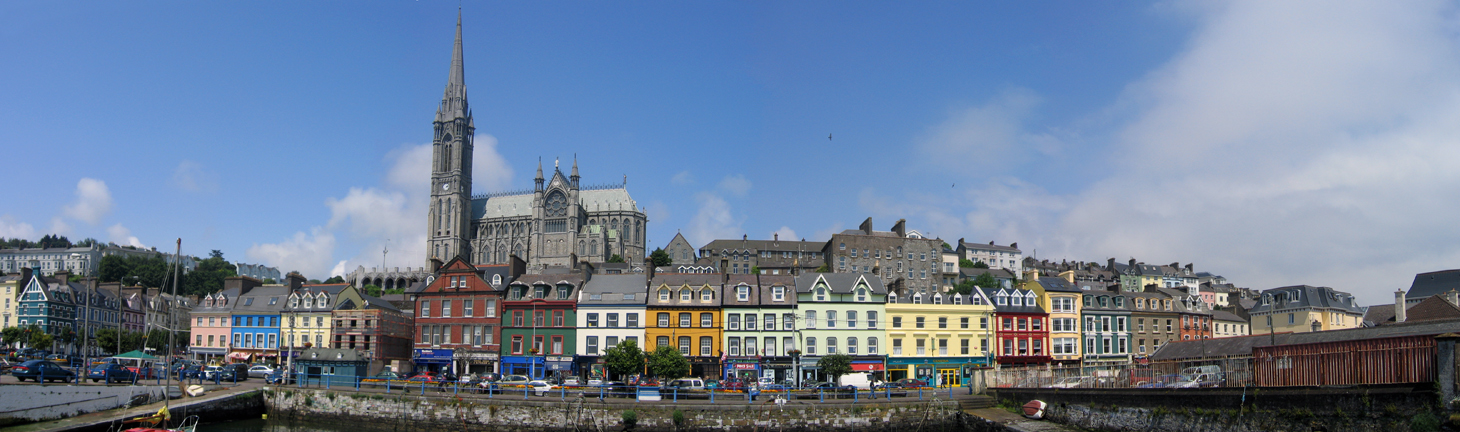 Cobh, County Cork, Ireland